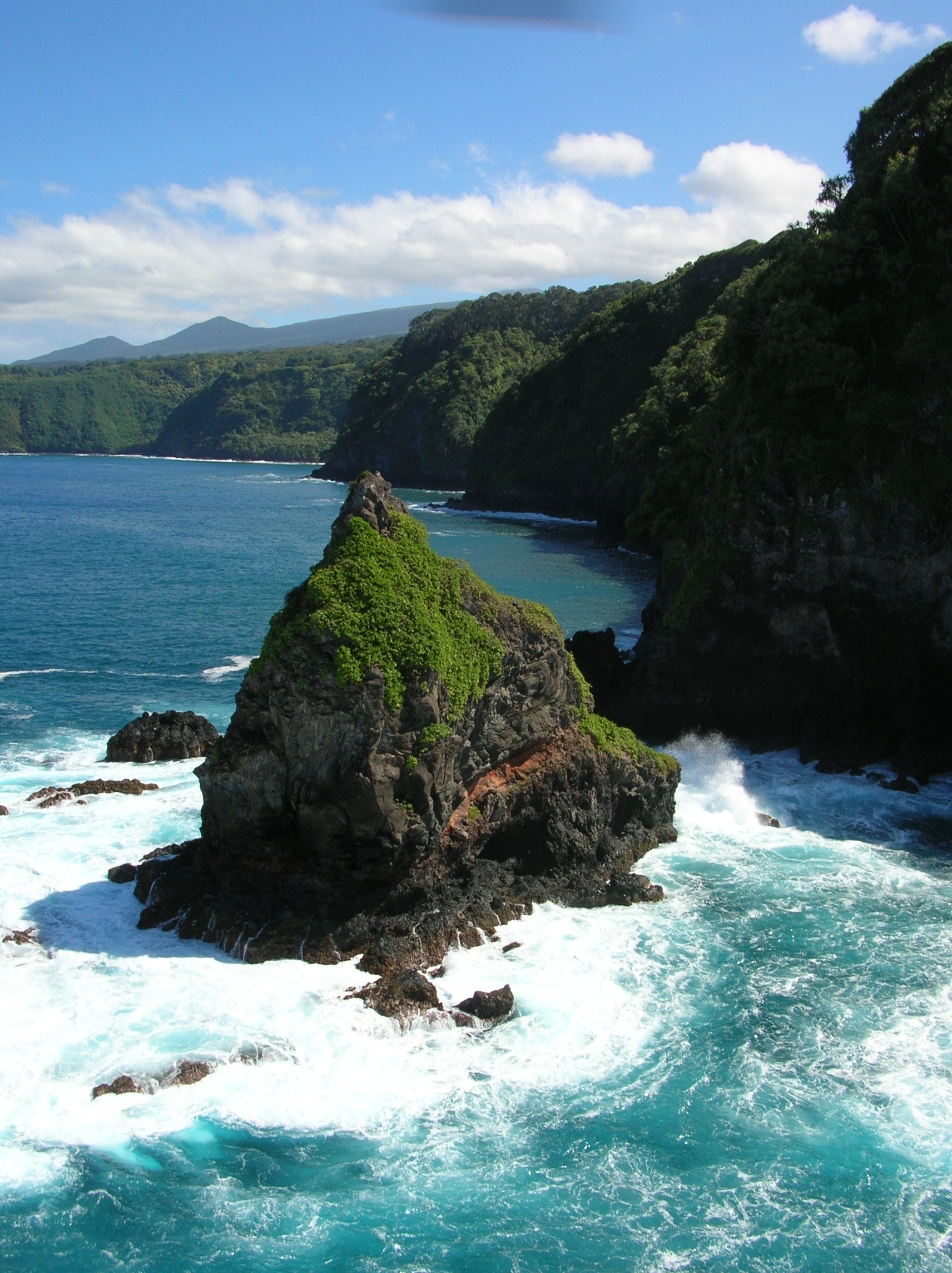 Peucedanum sandwicense (habit). Location: Maui, Makoloaka